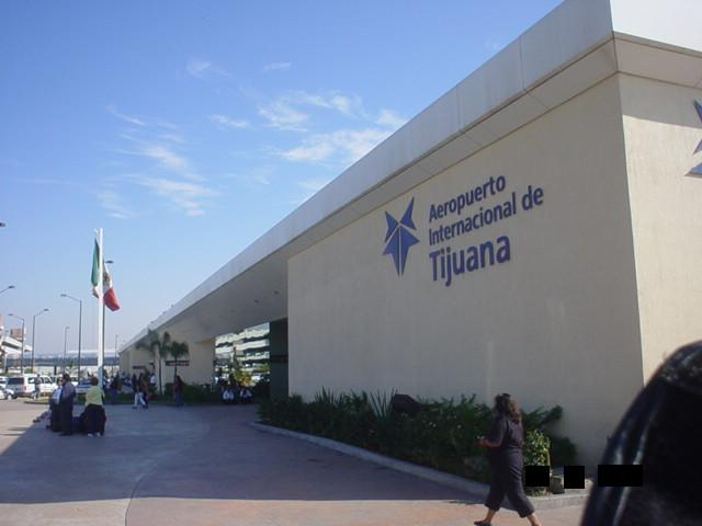 Tijuana International Airport.